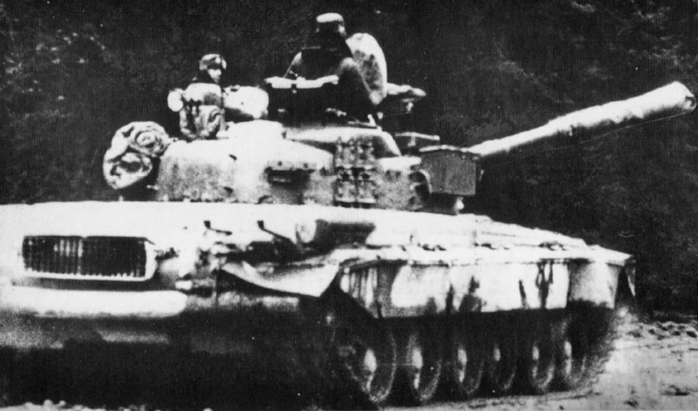 Soviet T-80 MBT during maneuvers.